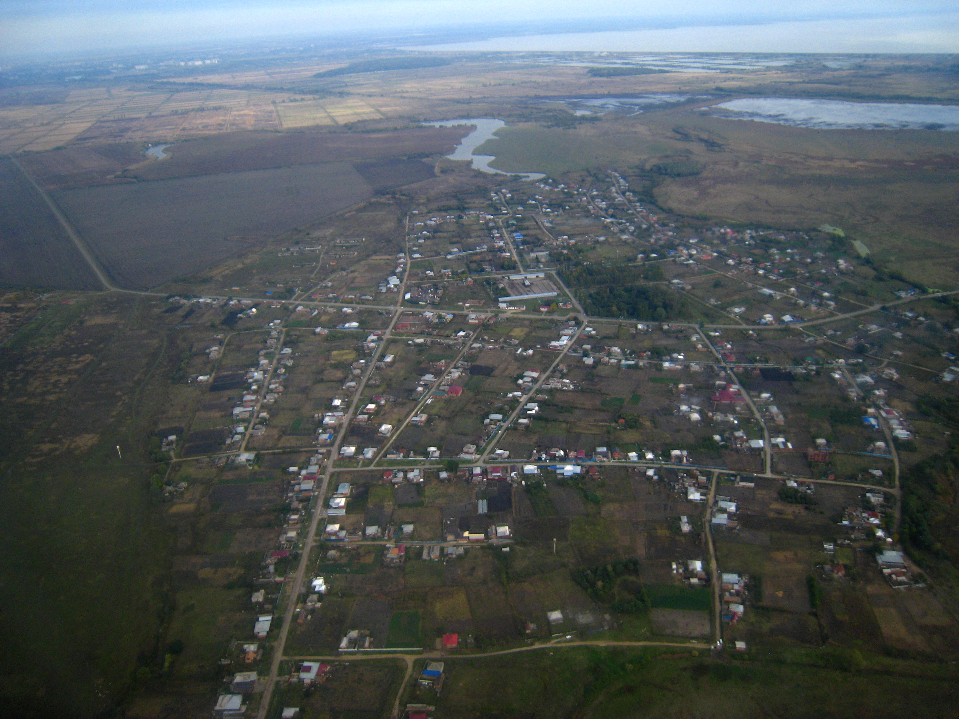 Shendzhi, Adigeya, Russia. Aerial view.